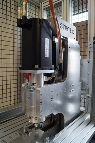 Friction stir spot welding (FSSW) gun D-SWG by Stirtec GmbH in Premstätten (Austria)